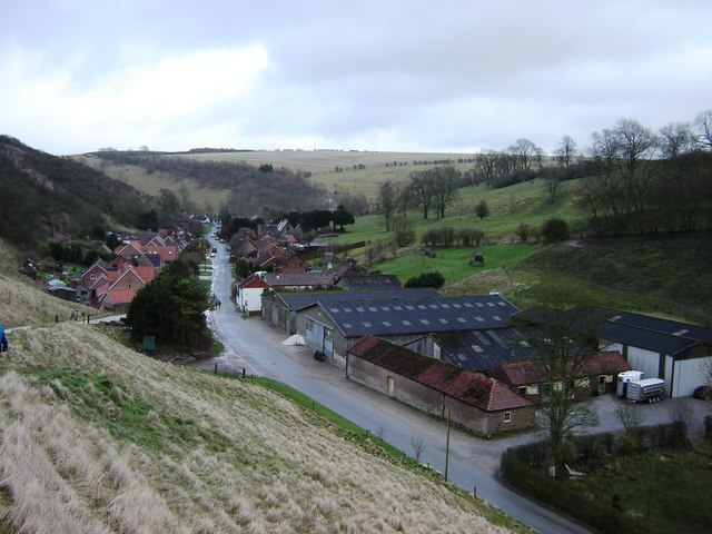 Thixendale from the Wolds Way